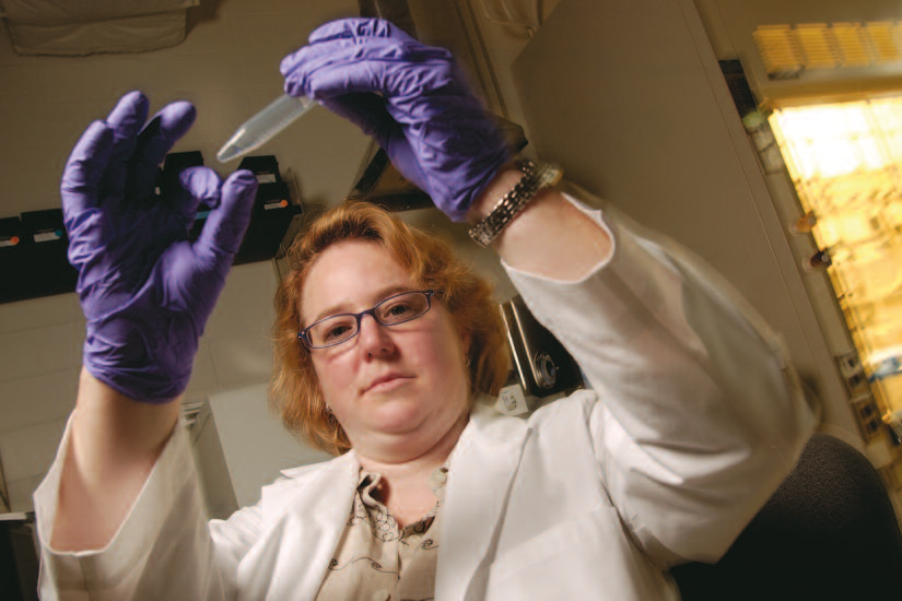 Hilary Godwin is a chemist at Northwestern University near Chicago. Godwin studies the chemistry of lead poisoning. In "Findings" magazine, MArch 2005, National Institute of General Medical Sciences.